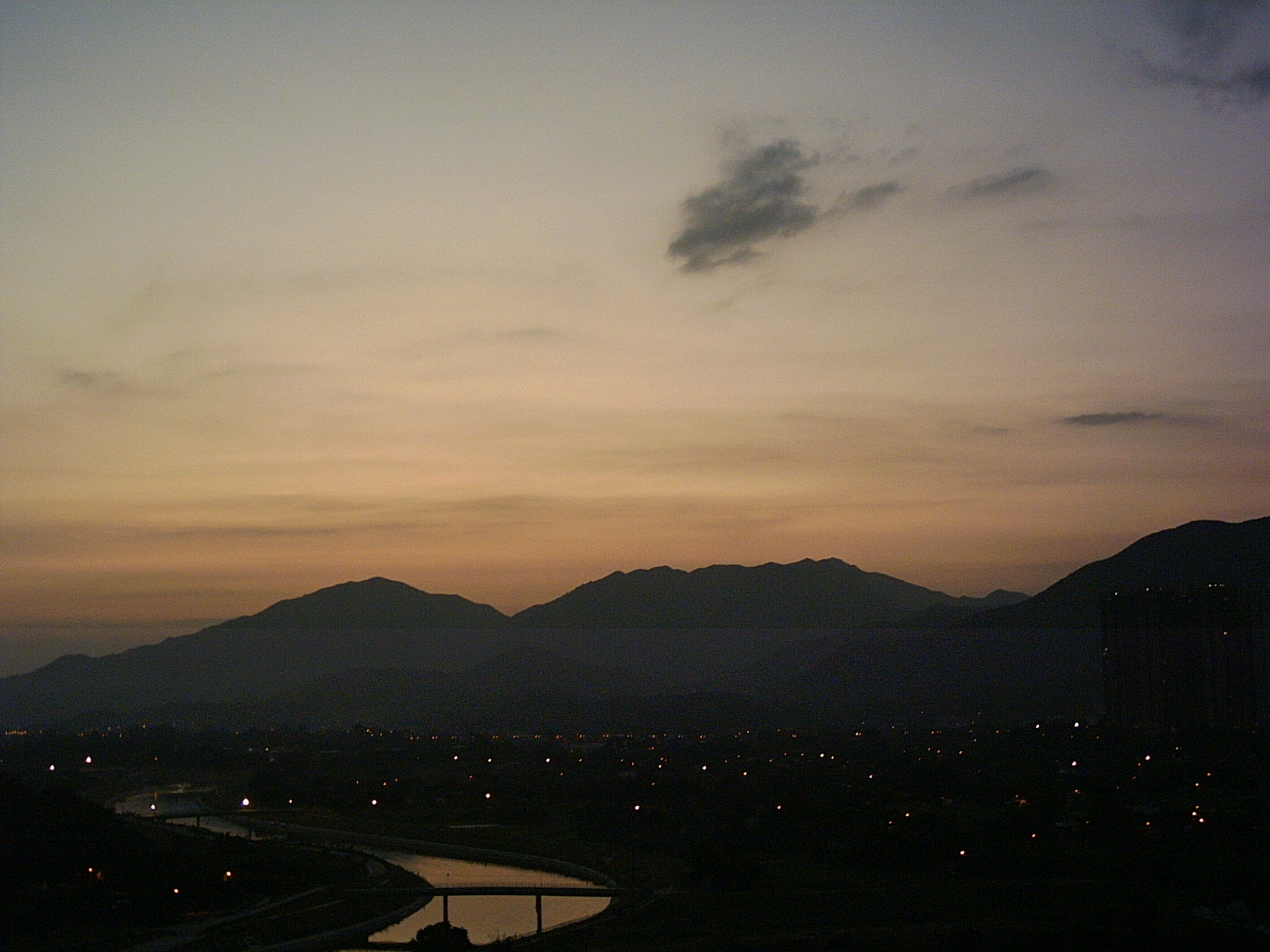 Just after sunset, looking towards the east, in Sheung Shui. Taken by myself in October, 2004.